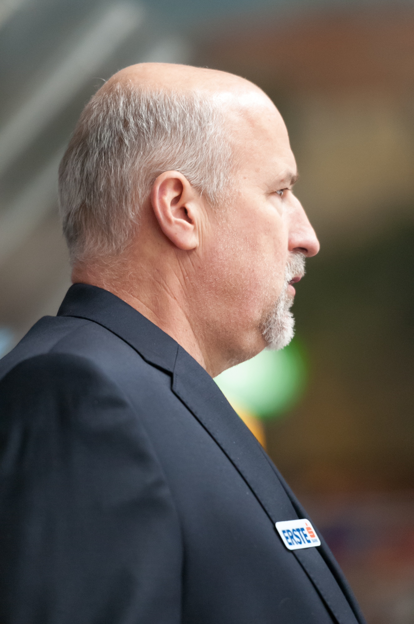 EBEL Orli Znojmo vs. HC Bolzano 2016-02-05